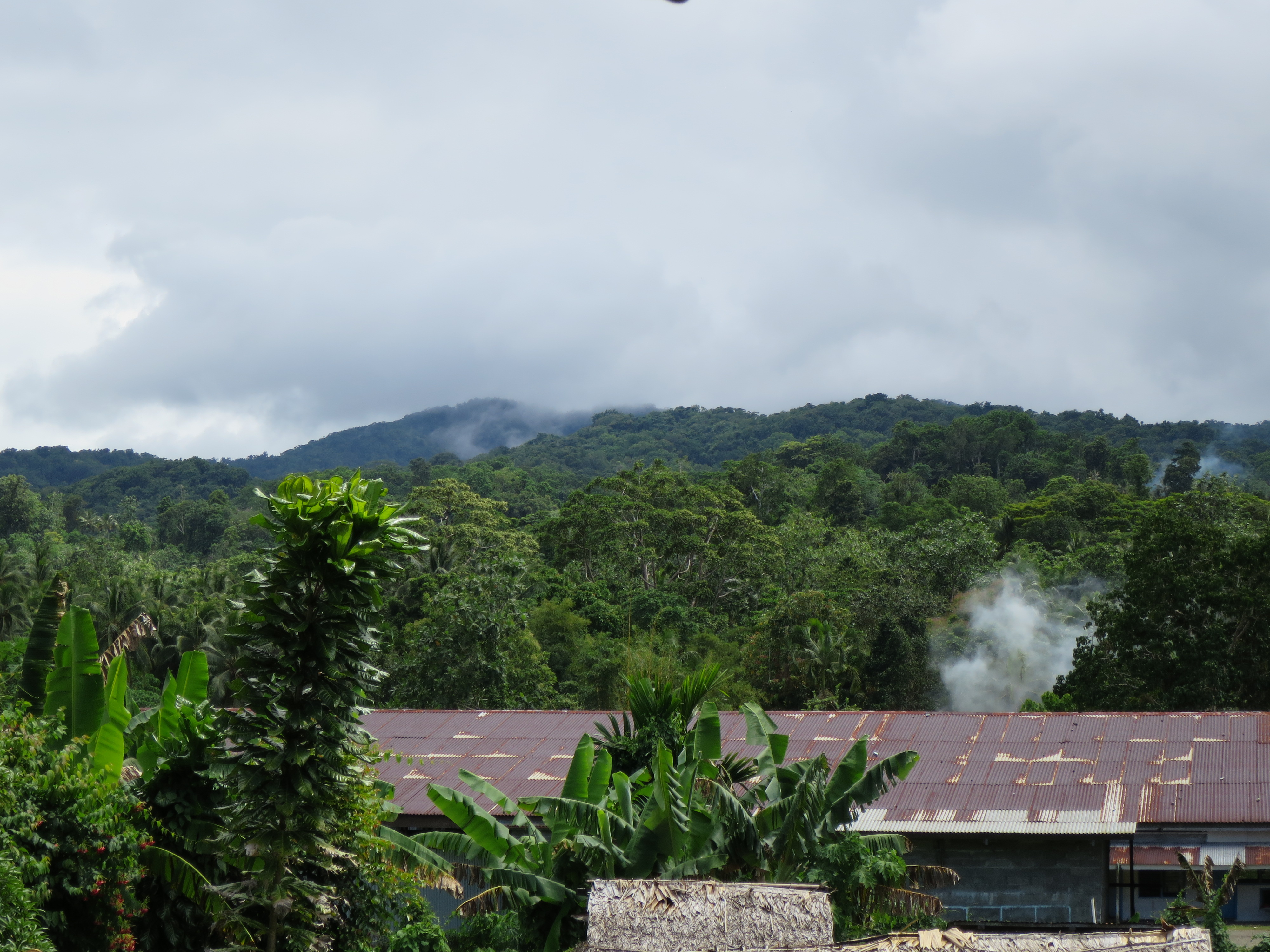 This photograph was taken from the Main Street in Kirakira, close to Kirakira Hospital.